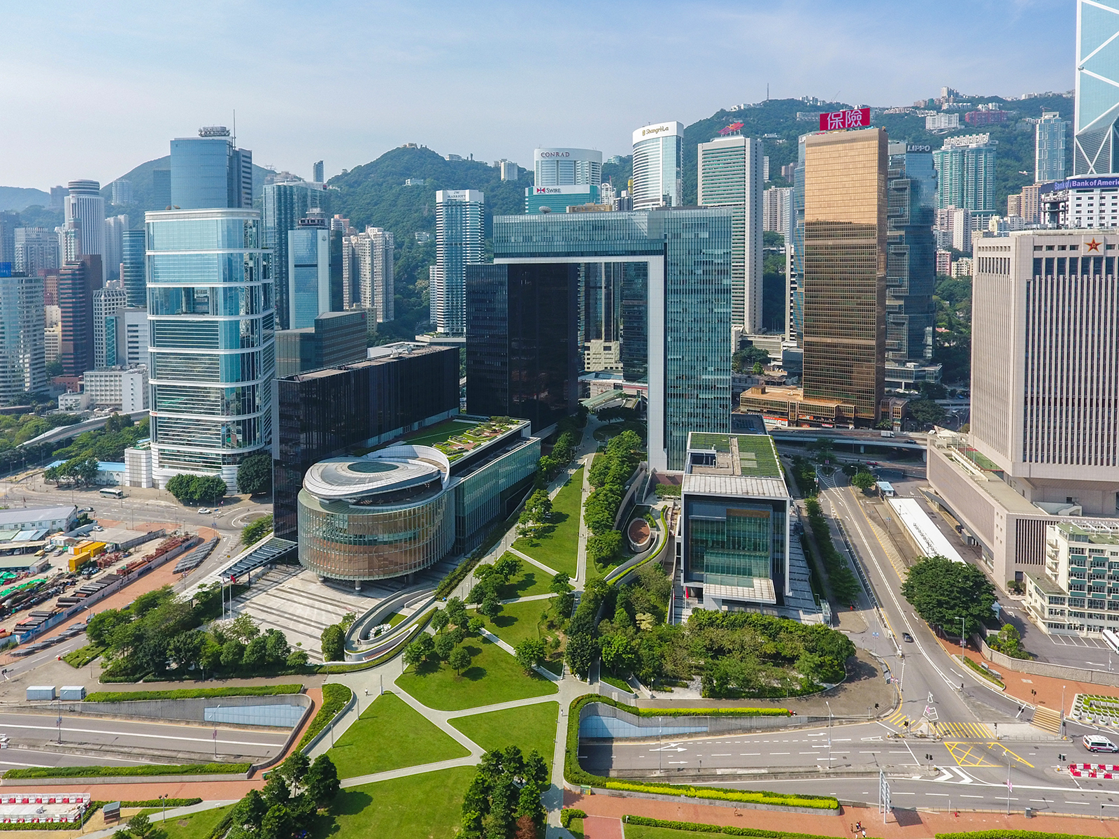 Central Government Offices